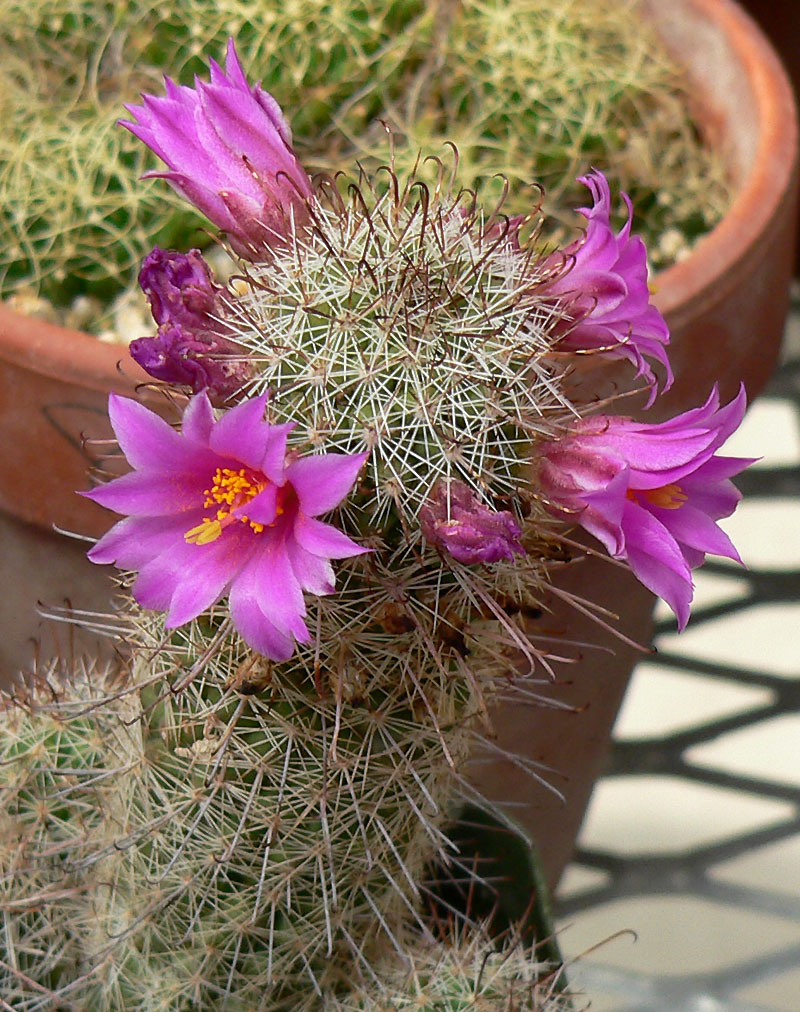 Mammillaria mazatlanensis at the University of California Botanical Garden, Berkeley, California